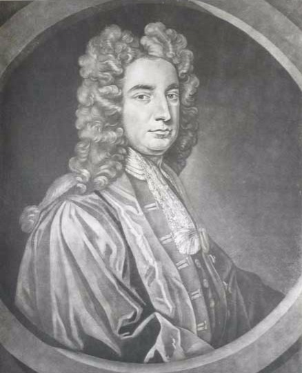 Portrait of Richard Helsham (1683–1738), Irish physician and natural philosopher.